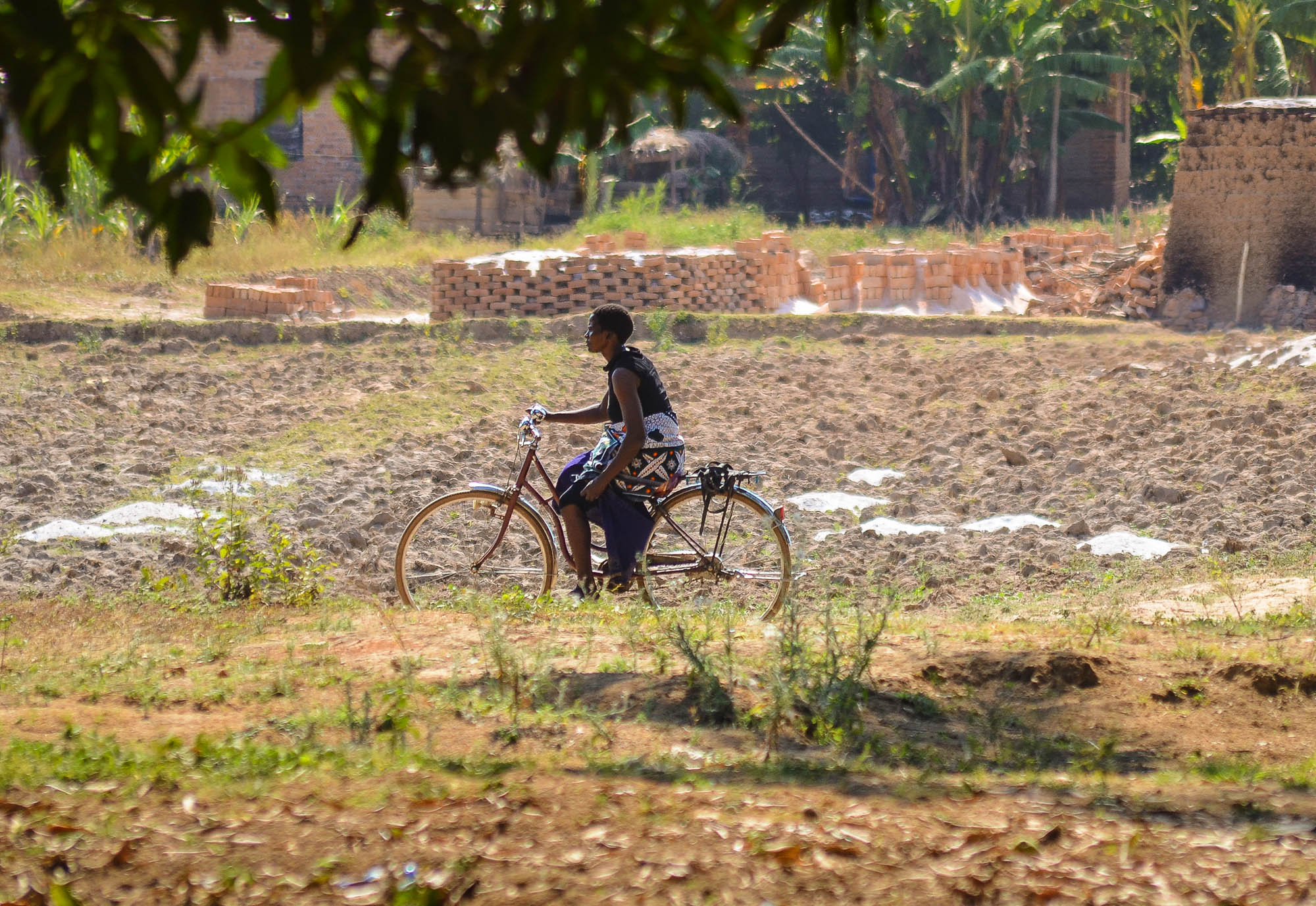 Pregnant women from Busoka villages located in Busale ward in Kyela district, have been using bicycle transportation to assess pregnancy development in Lema clinic, which is located about six kilometers from the villages. This is an image with the theme "Africa on the Move or Transport" from: Tanzania